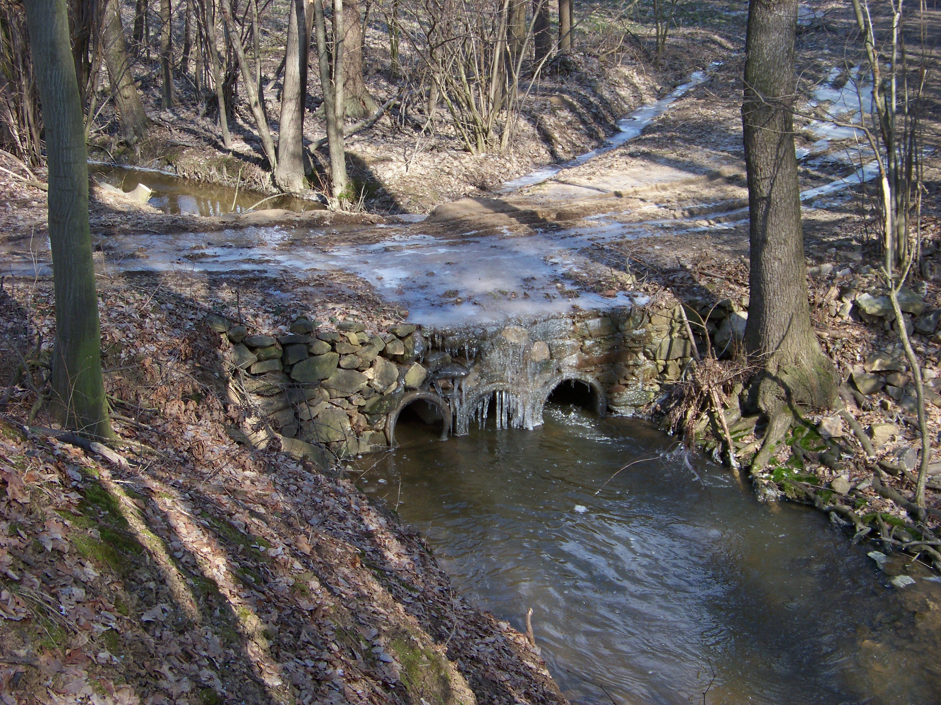 Chlístovice-Zdeslavice, Kutná Hora District, Central Bohemian Region, the Czech Republic. Zdeslavický Creek.